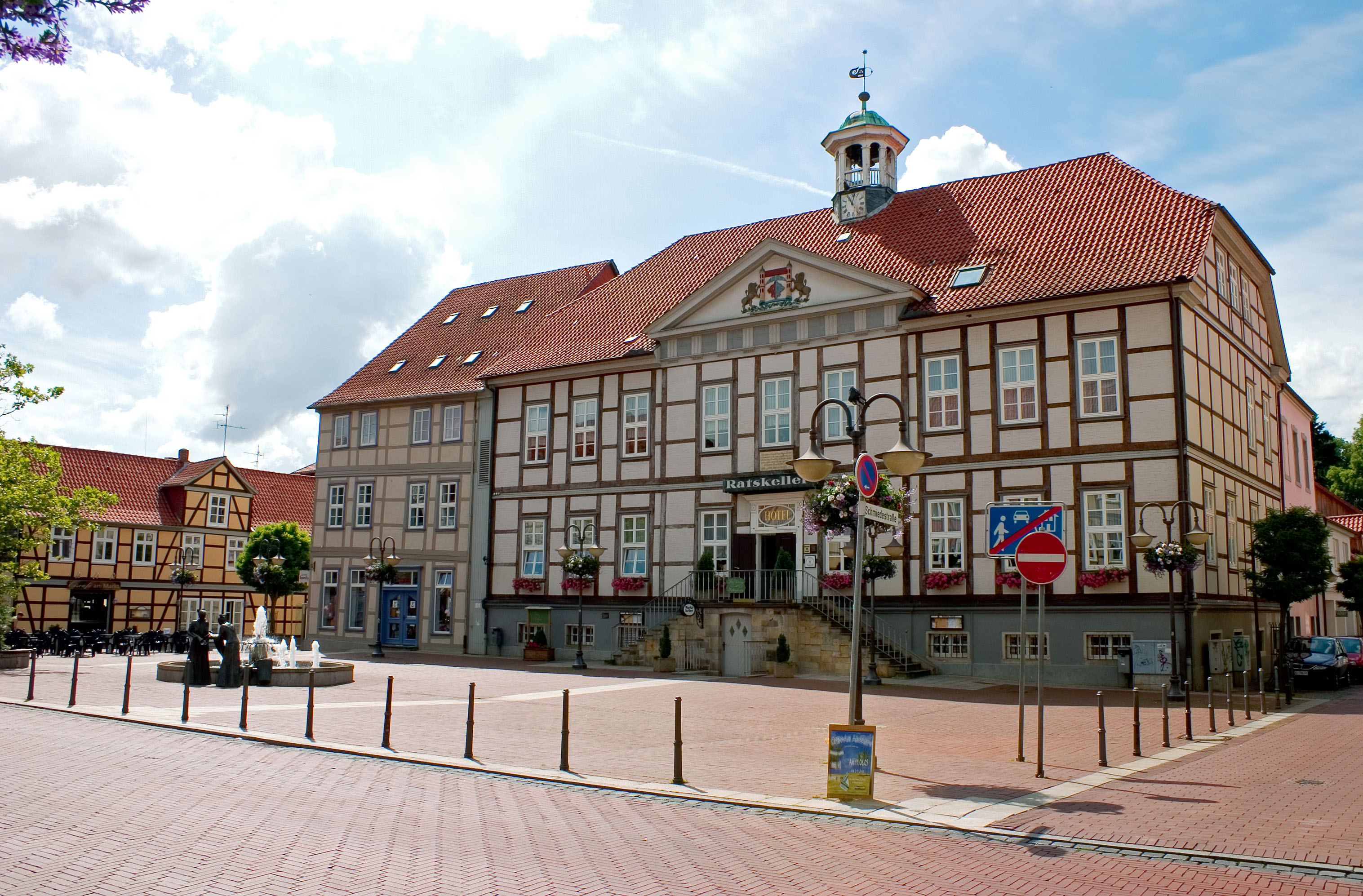 Market place and old town hall of Lüchow (Wendland) in Lower Saxony, Germany.